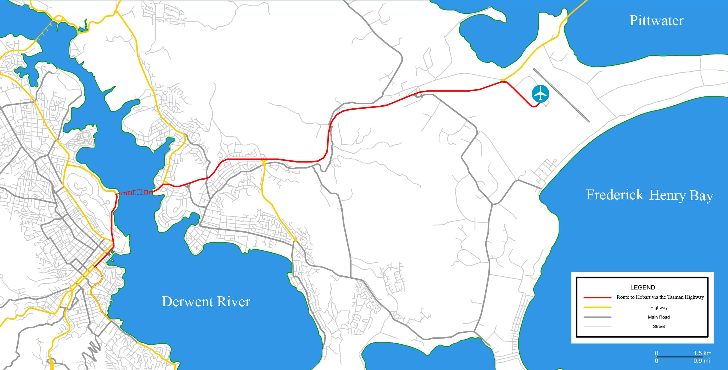 map of route to Hobart, from Hobart International Airport